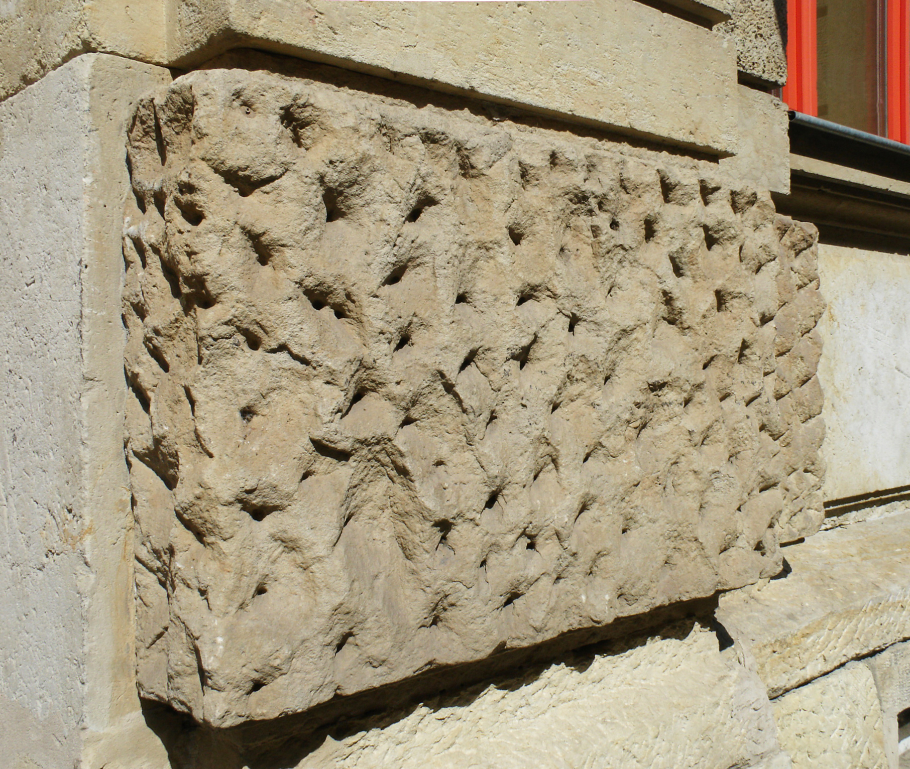 Rustication-construction stone